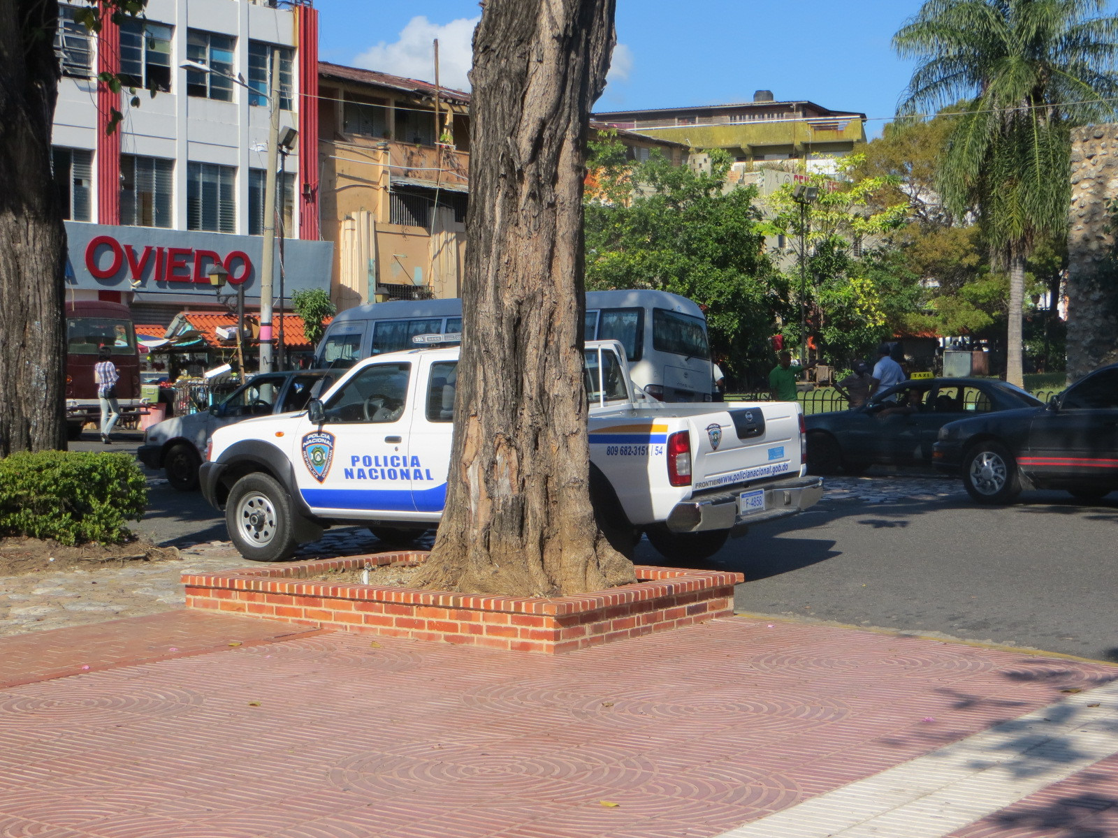 Police Truck in Santo Domingo, Dominican Republic